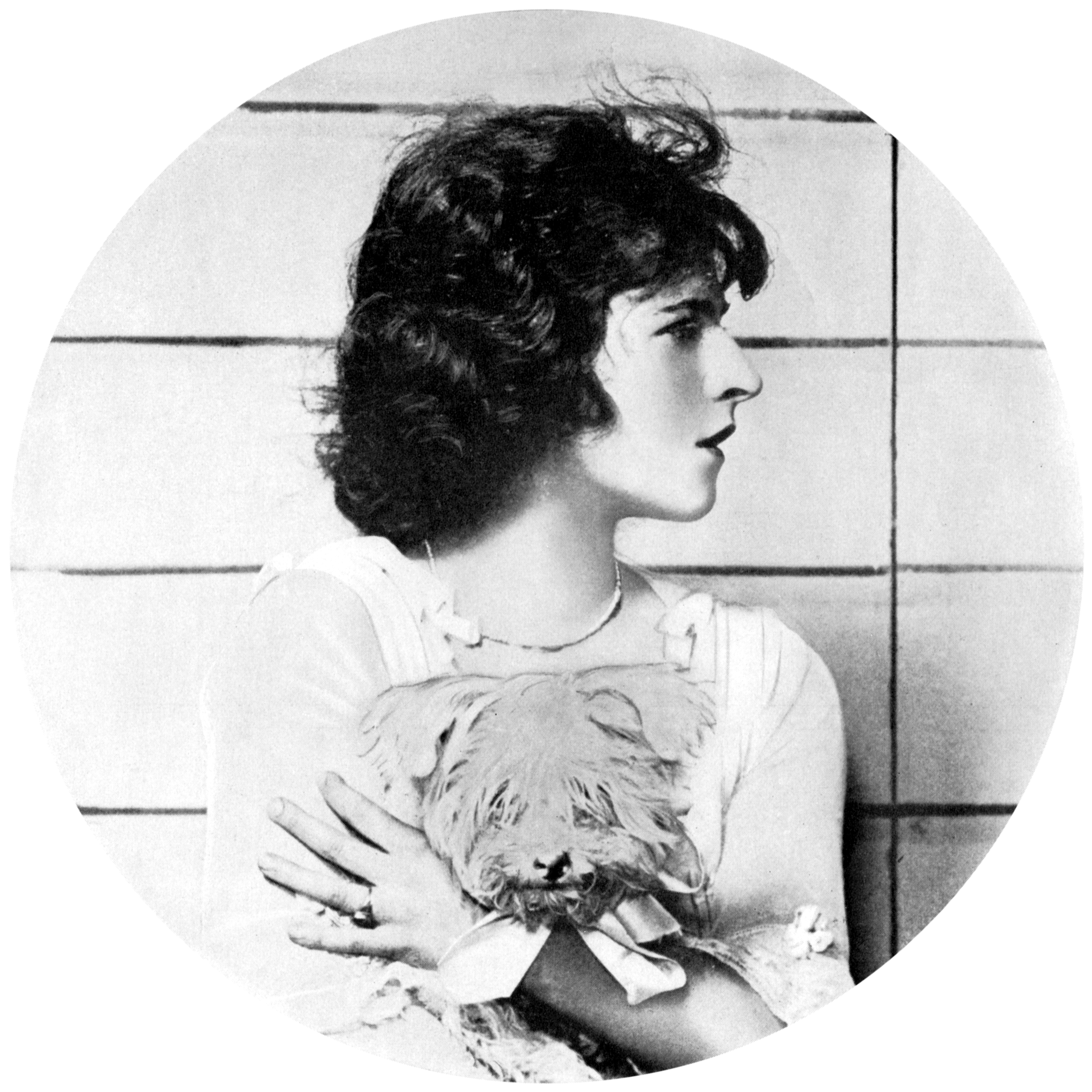 Photograph of Ruth Gordon as Lola Pratt (holding her dog Flopit) in the Broadway production of Seventeen